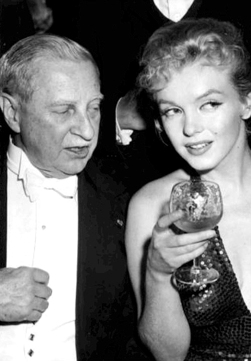 Photo of Marilyn Monroe from the April in Paris Ball held at the Waldorf-Astoria in New York in 1957. At left is the former US Ambassador to Great Britain, Winthrop W. Aldrich.